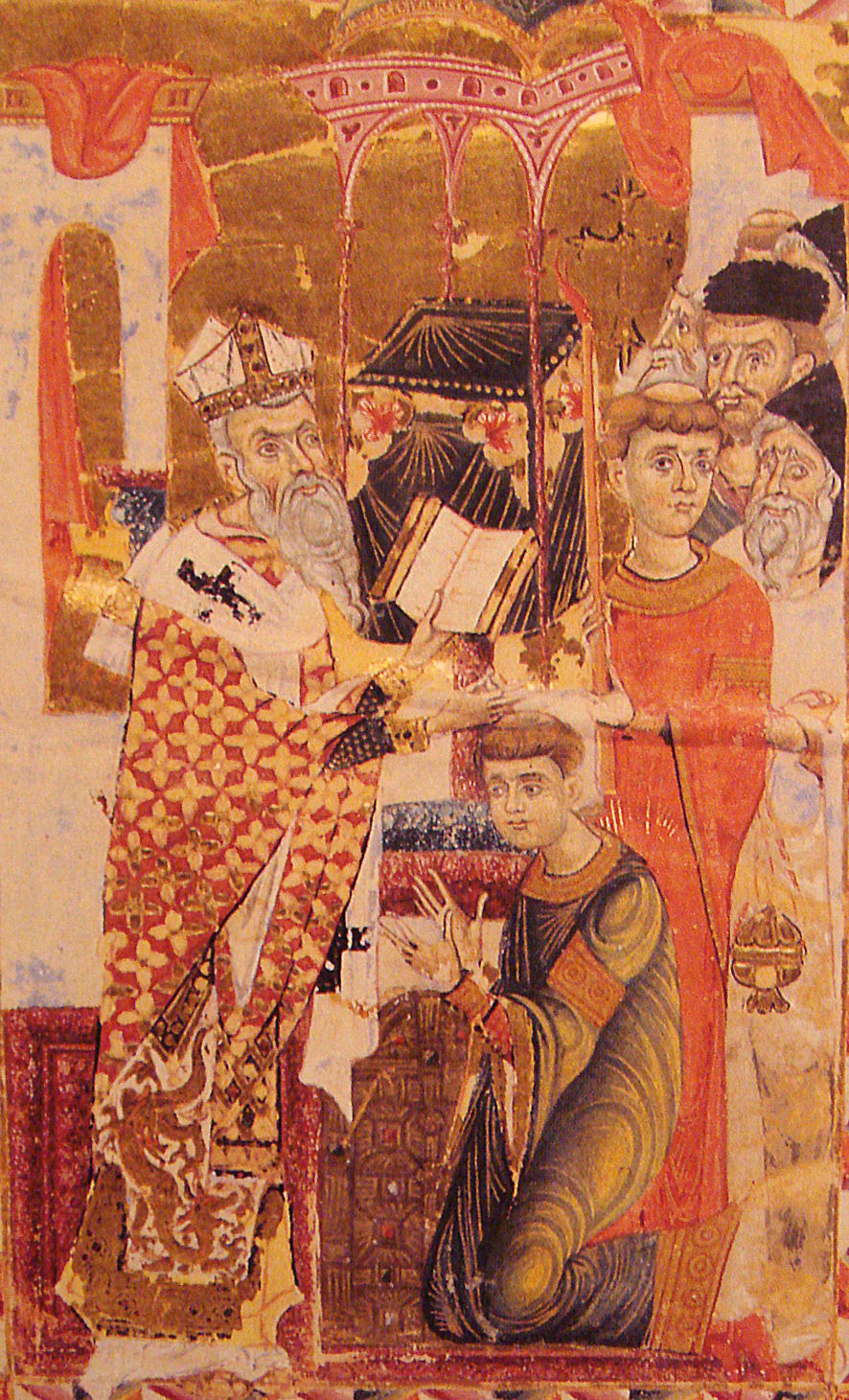 Armenian Archibishop Jean, 1287 painting